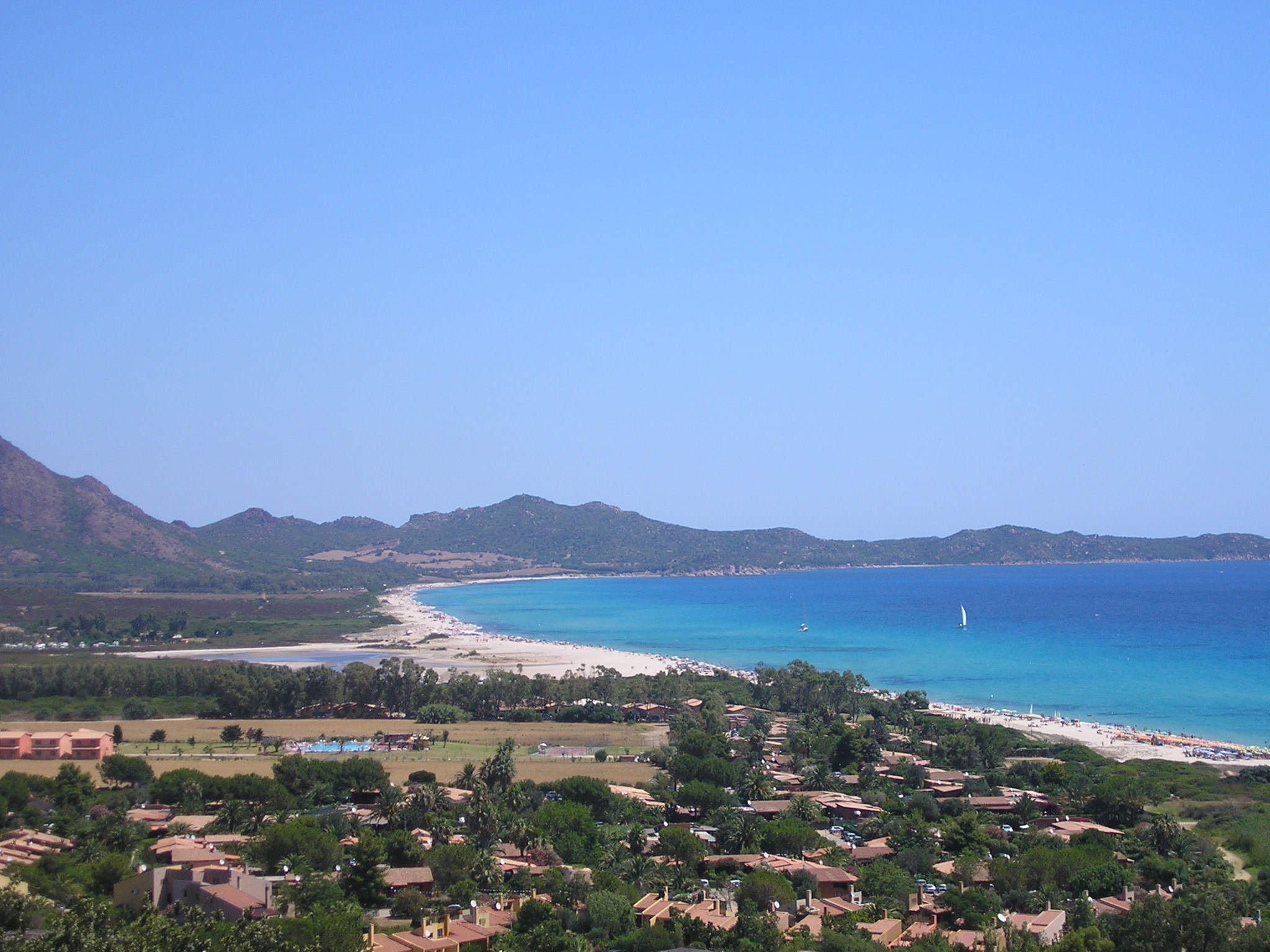 View of the seaside frazione of Costa Rei, in Muravera municipality, Sardinia, Italy